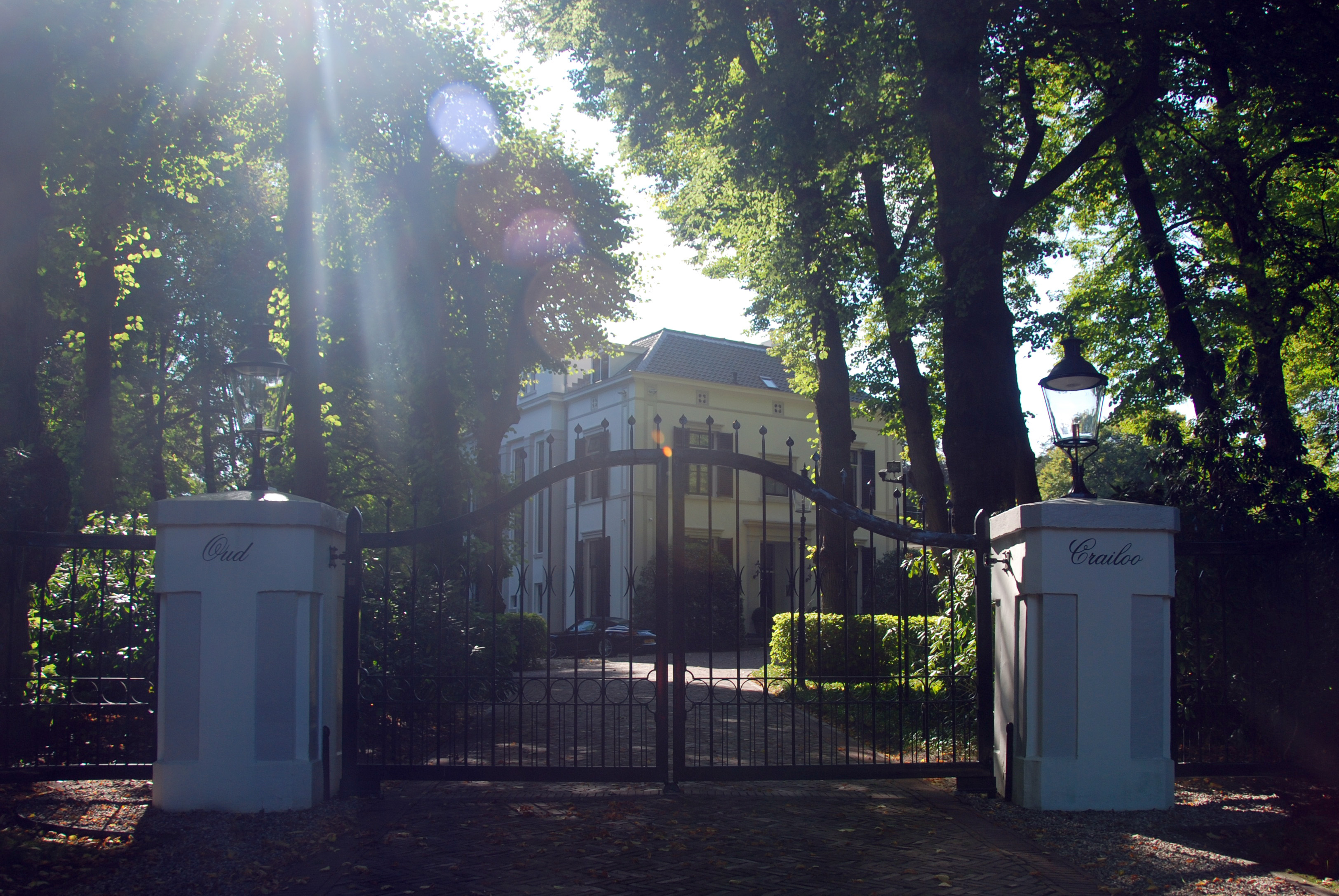 Oud-Crailo gate